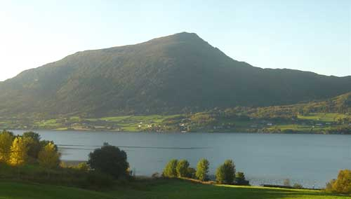 Averøy and the mountain Mekknoken